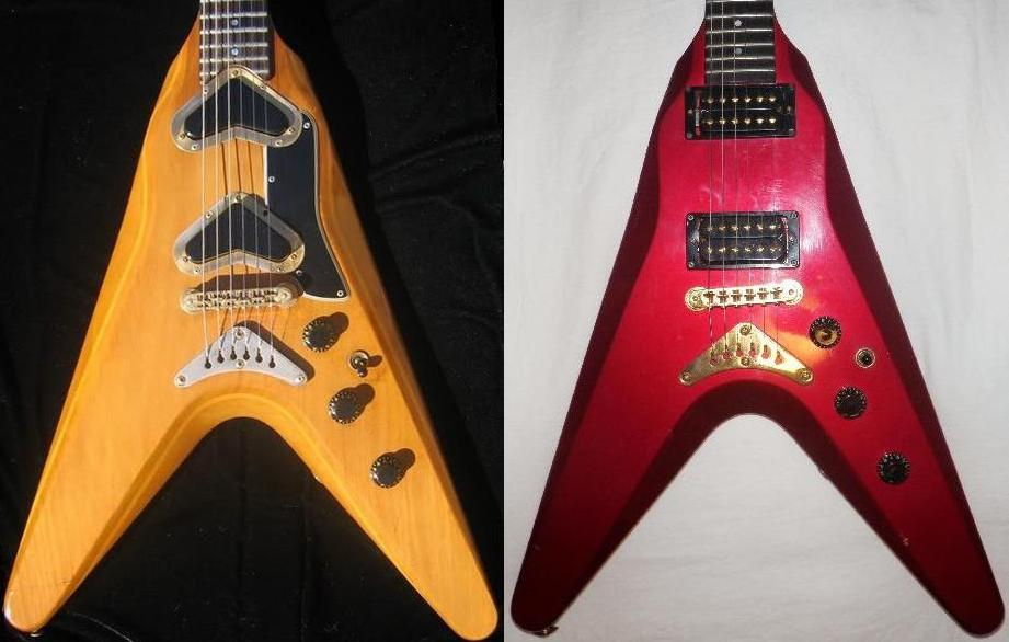 Gibson V2 guitars, left picture is 1979 with boomerang pickups, right picture is a 1982 with dirty fingers pickups